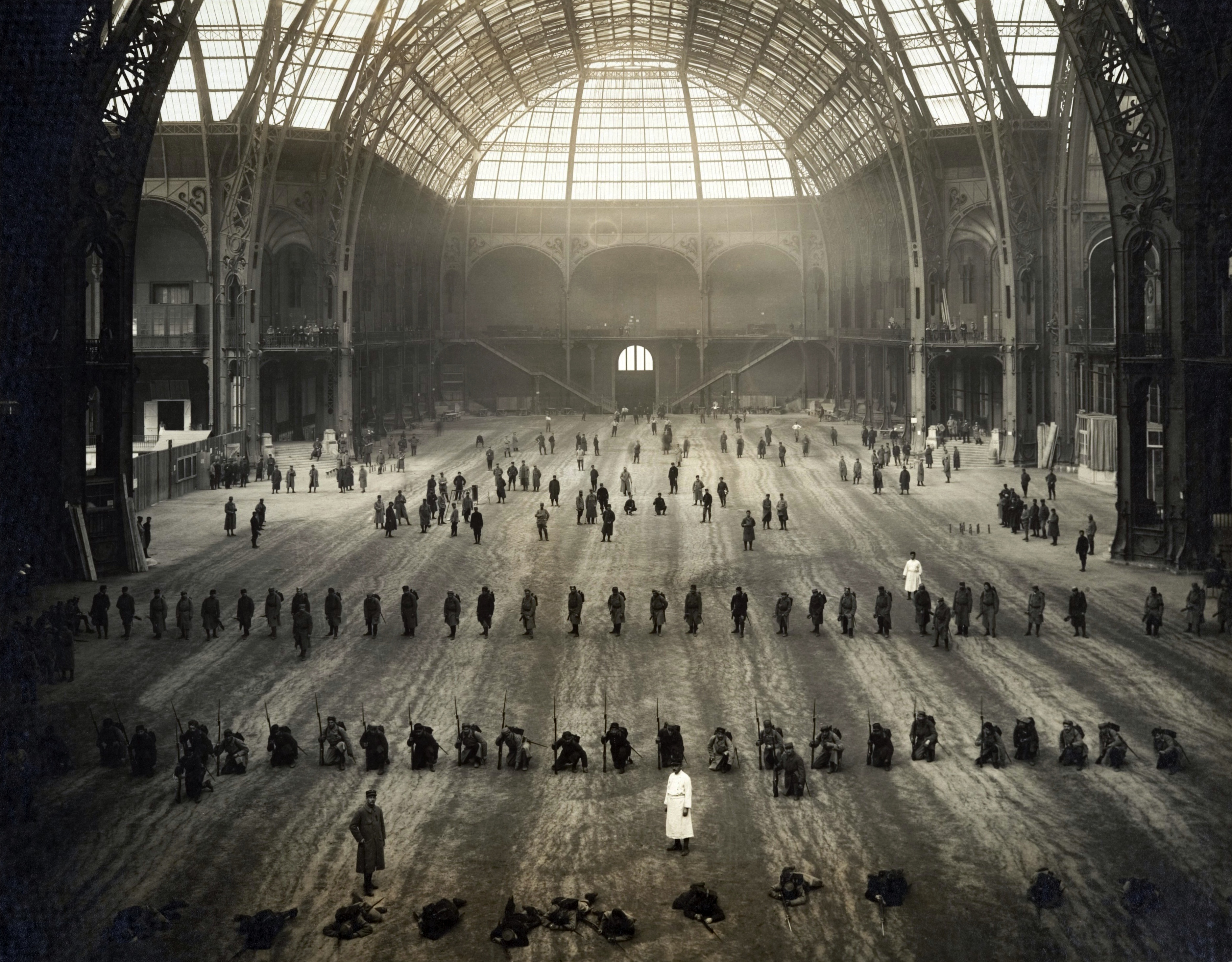 The Great Nave: Wounded Soldiers Performing Arms Drill at the End of Their Medical Treatment